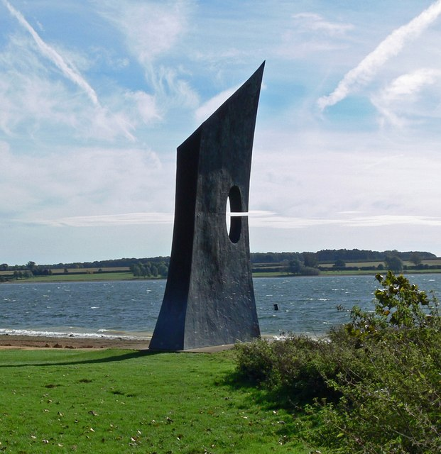 "The Great Tower" — a modern sculpture on the north shore of Rutland Water, England.